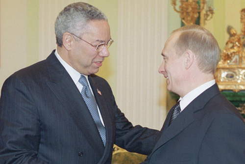 THE KREMLIN, MOSCOW. Vladimir Putin with US Secretary of State Colin Powell.